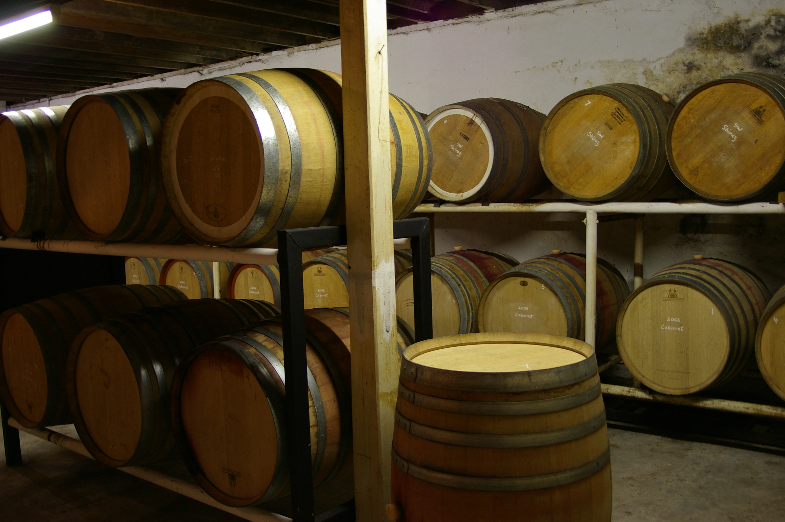 Underground Cellar of the Westfield Winery, Baskerville. The barrels are European Oak.